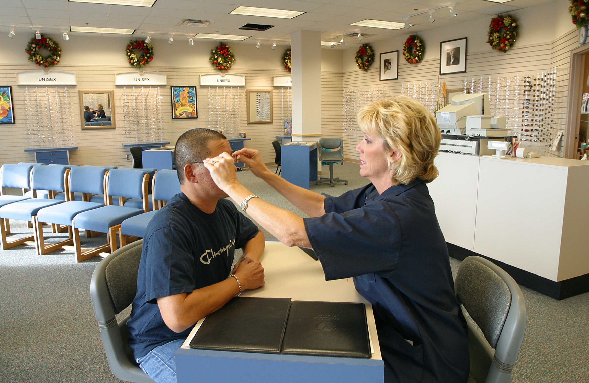 Pearl Harbor, Hawaii (Oct. 29, 2002) -- Navy Exchange Optician Jeane Bueheler adjusts a customer's glasses at the new optical shop located at the “Mall at Pearl Harbor.” The 350,000 square foot mall houses the largest Navy Exchange in the world, the largest Department of Defense Commissary in Hawaii, and was designed based on recommendations from customers through surveys and focus groups. U.S. Navy photo by Photographer's Mate 1st Class William R. Goodwin. (RELEASED)